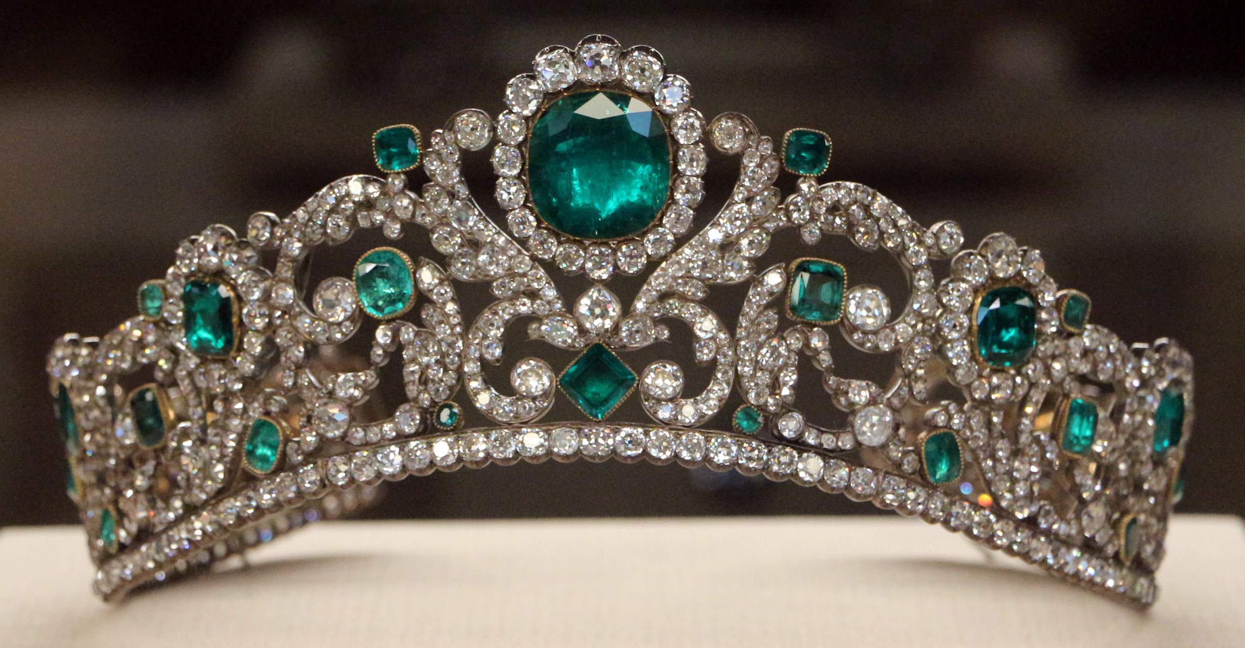 Crown jewels of France (gallery of Apollo)